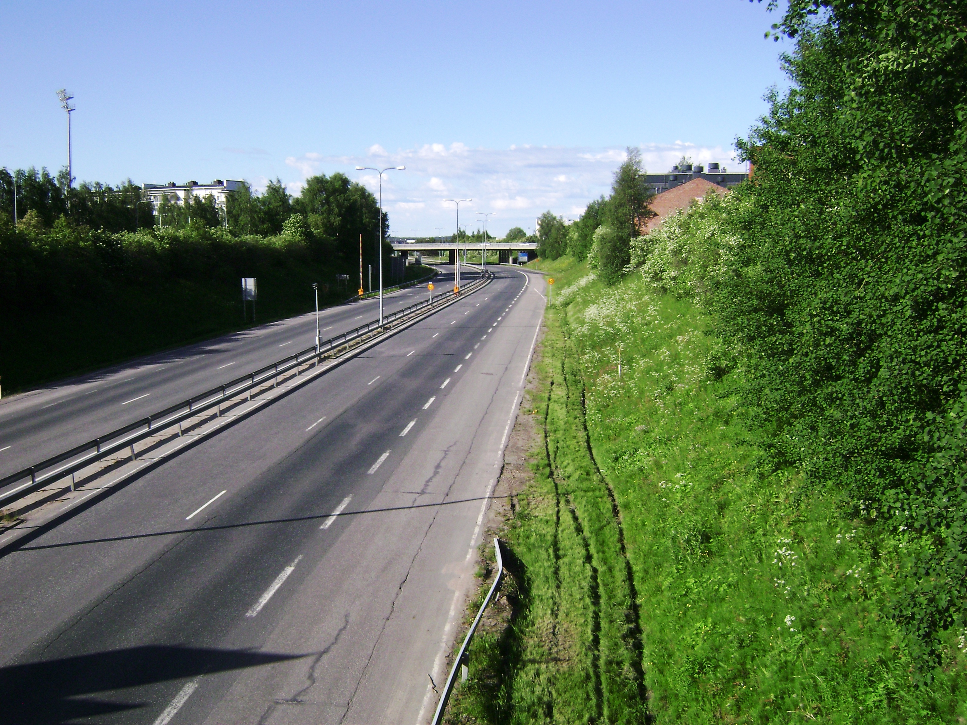 National road 4 (E75) in Rovaniemi, Finland, near the city centre, looking south.